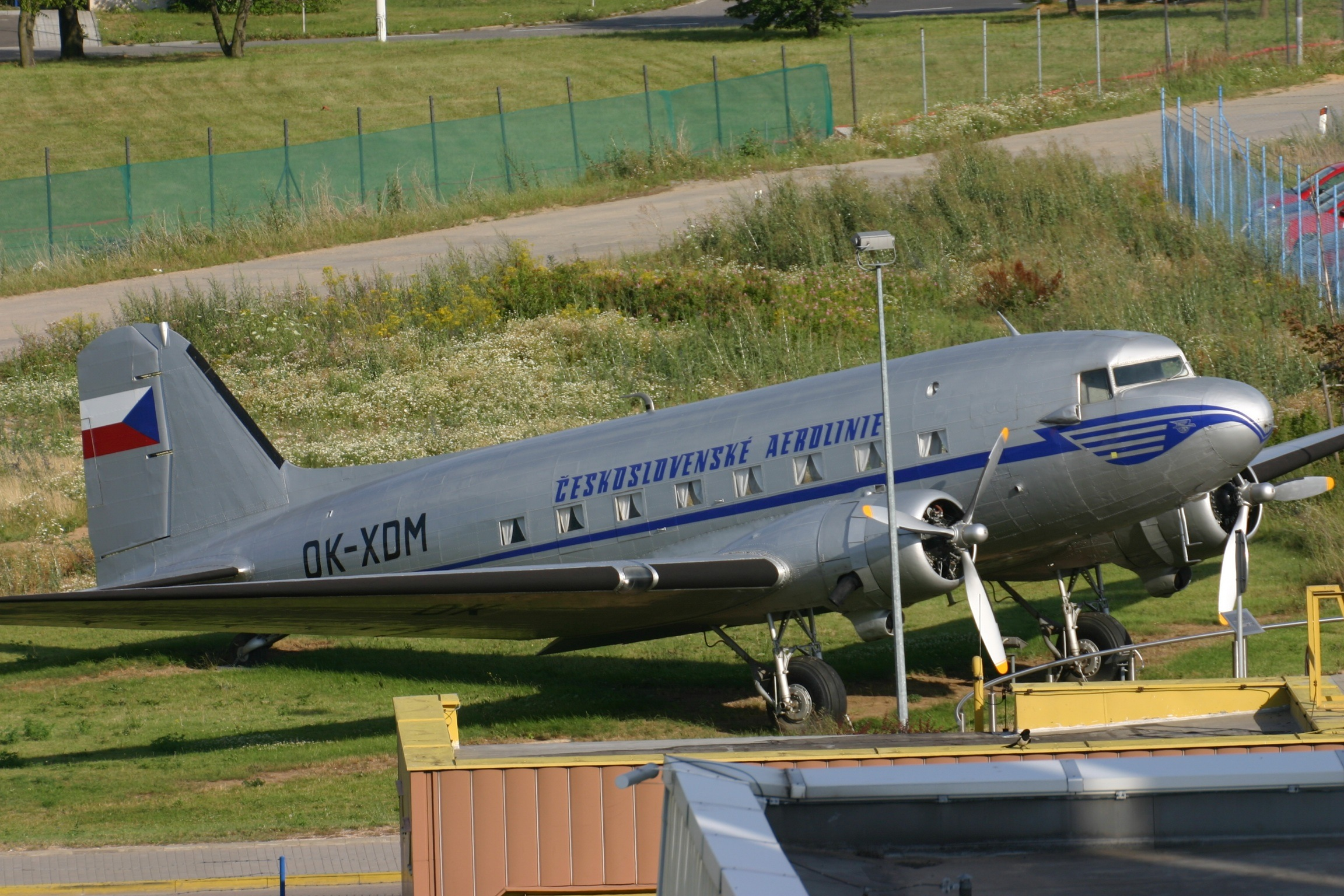 At Prague Ruzyně International Airport